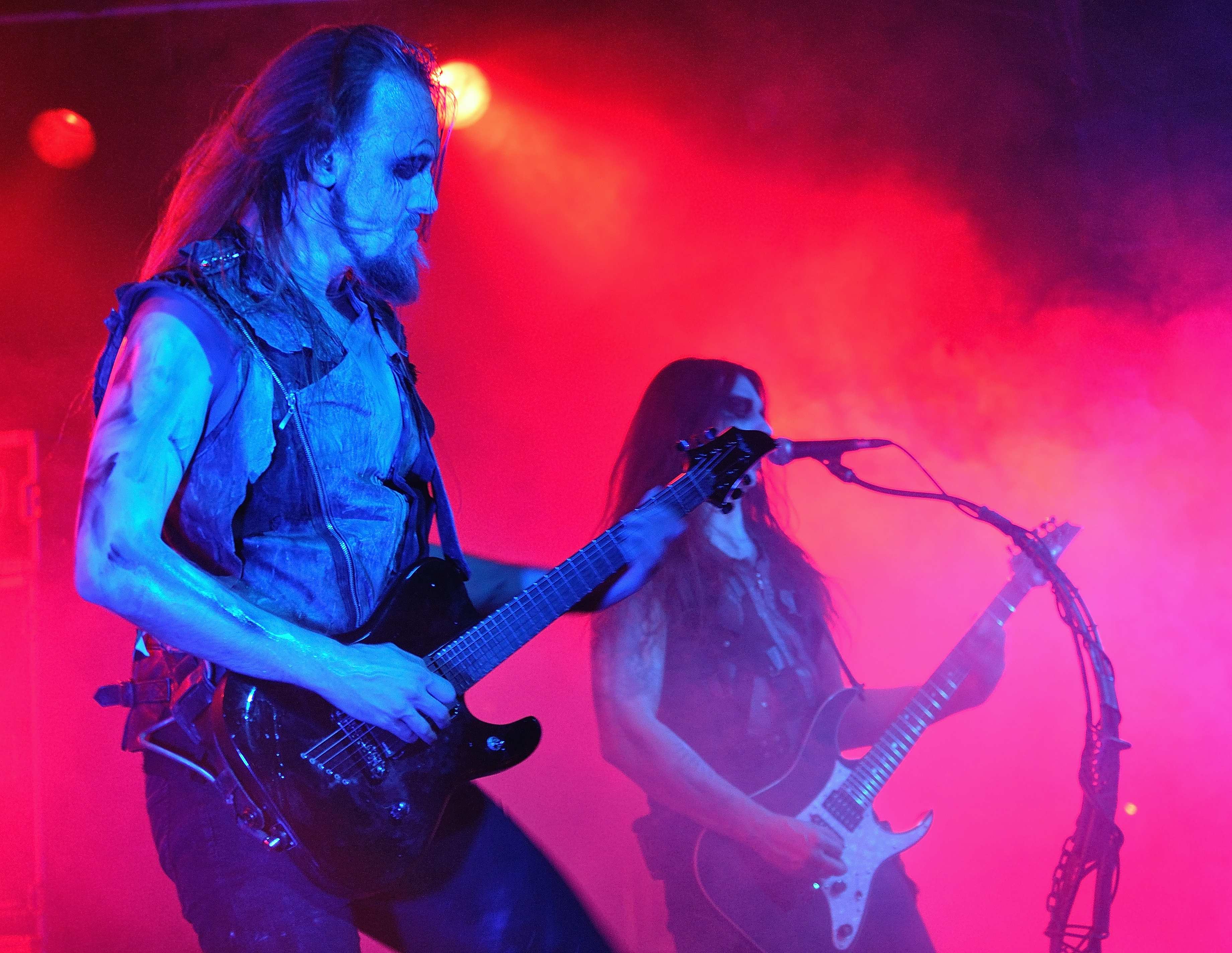 Hate at Hatefest 2015 in Berlin.